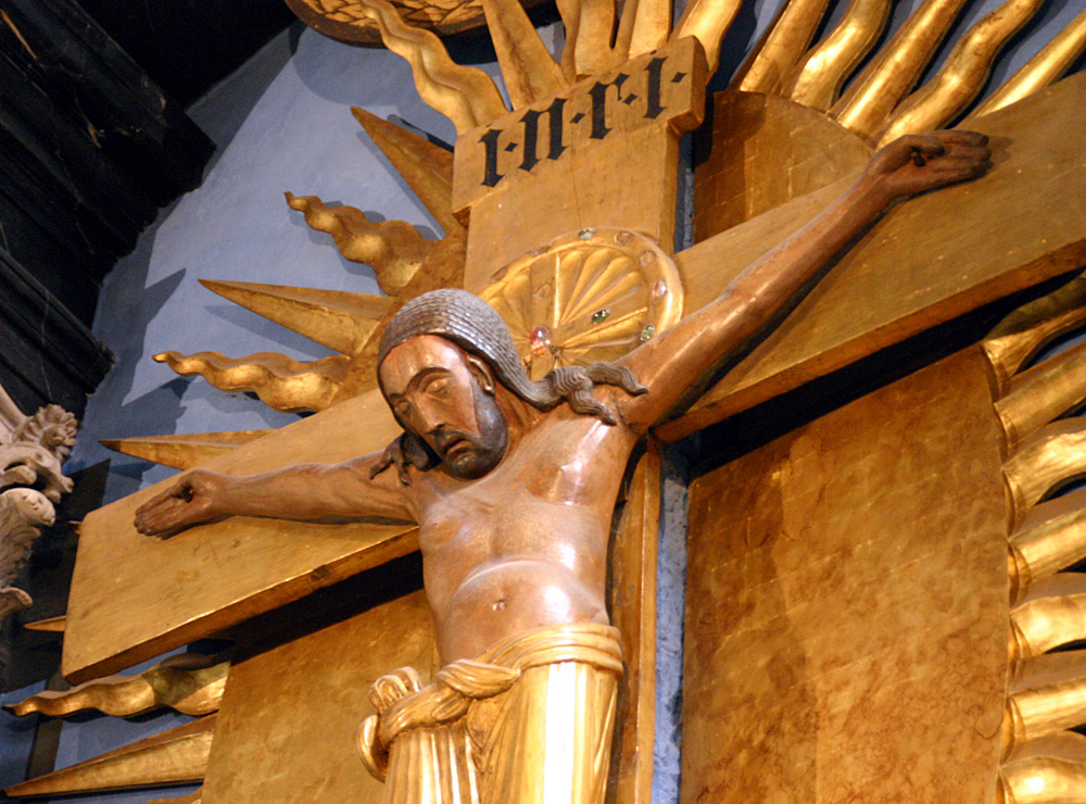 „Gero crucifix“, late 10. century, Cologne Cathedral, Germany author: Elke Wetzig (elya) date: 2005-09-03